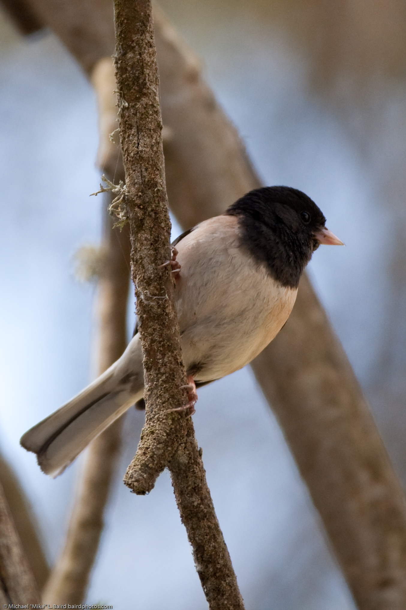 Dark-eyed Junco, pale adult male, in the Morro Bay Heron Rookery at Fairbanks Point just north of Windy Cove and the Museum of Natural History, Morro Bay, California, USA. Photographed with Canon 1D Mark III, Canon 600mm f/4 IS with circular polarizer, on sturdy tripod.